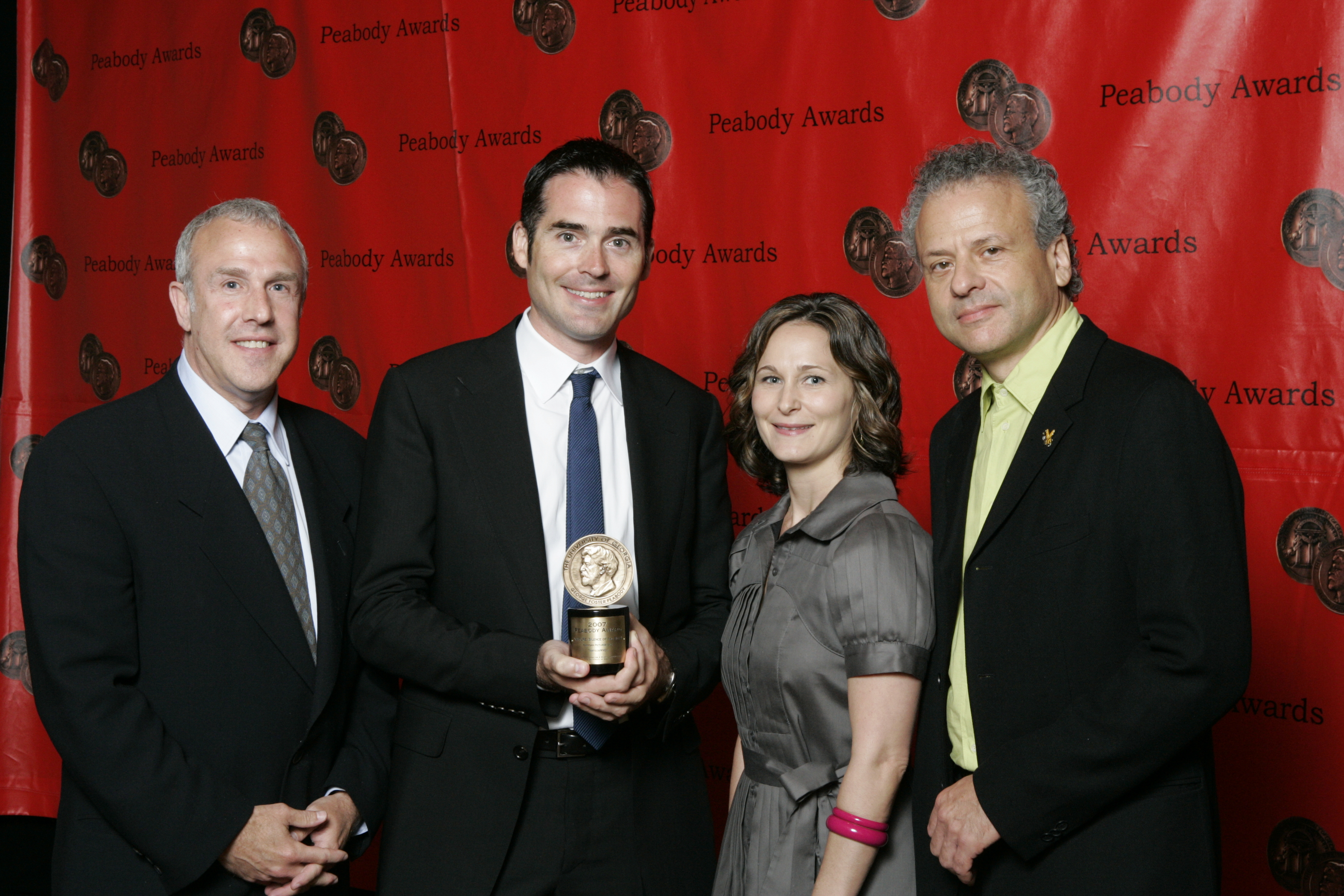 Fred Kaufman, Doug Shultz, Whitney Johnson and Peter Schnall 67th Annual Peabody Awards Luncheon Waldorf=Astoria Hotel New York, NY USA June 16, 2008